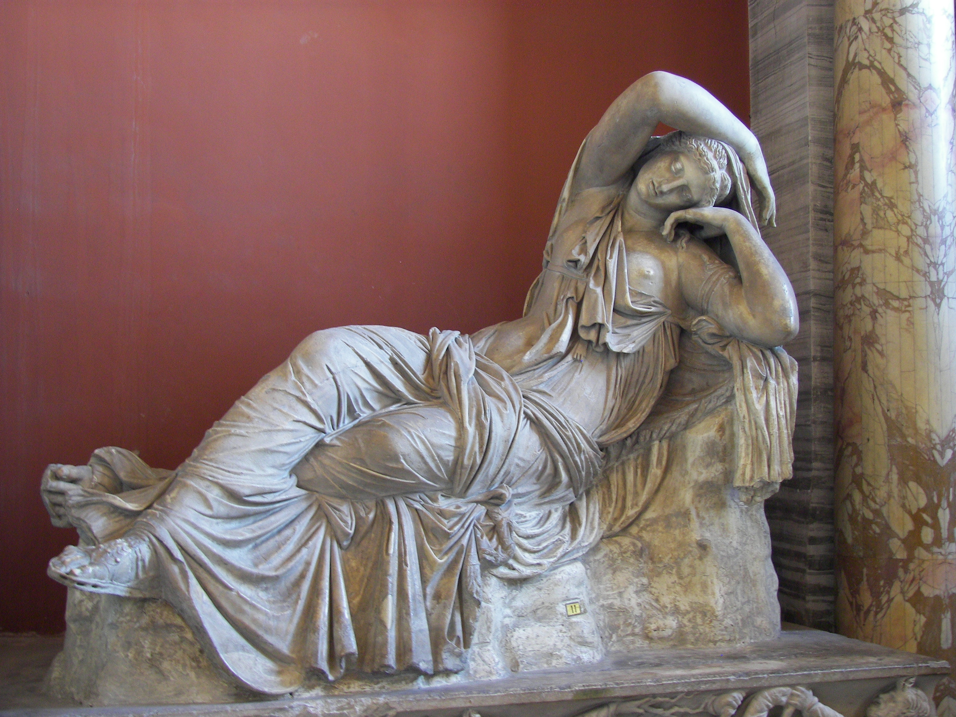 Statue of Sleeping Ariadne in the Vatican Museums.